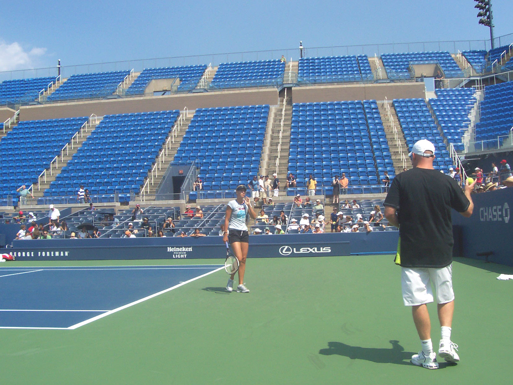 Maria Sharapova With Coach Michael Joyce During A 2006 U.S. Open Practice Session